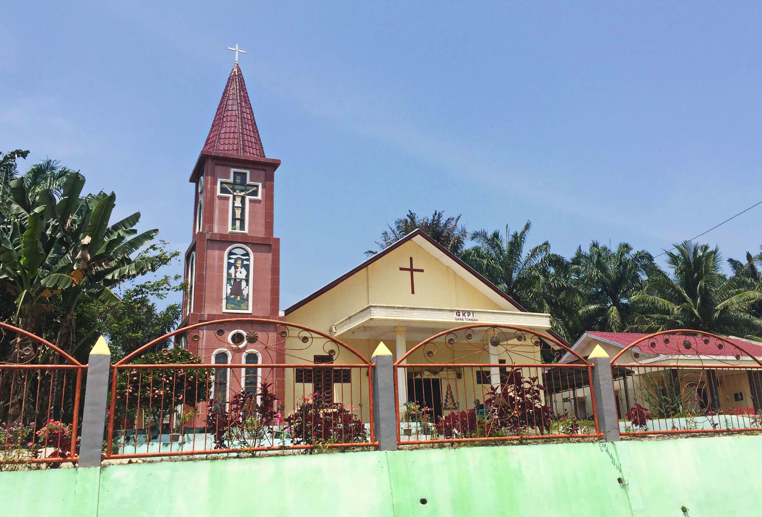 GKPI Jawa Tongah, Res. Tanah Jawa I Church in Jawa Tongah, Hatonduhan, Simalungun